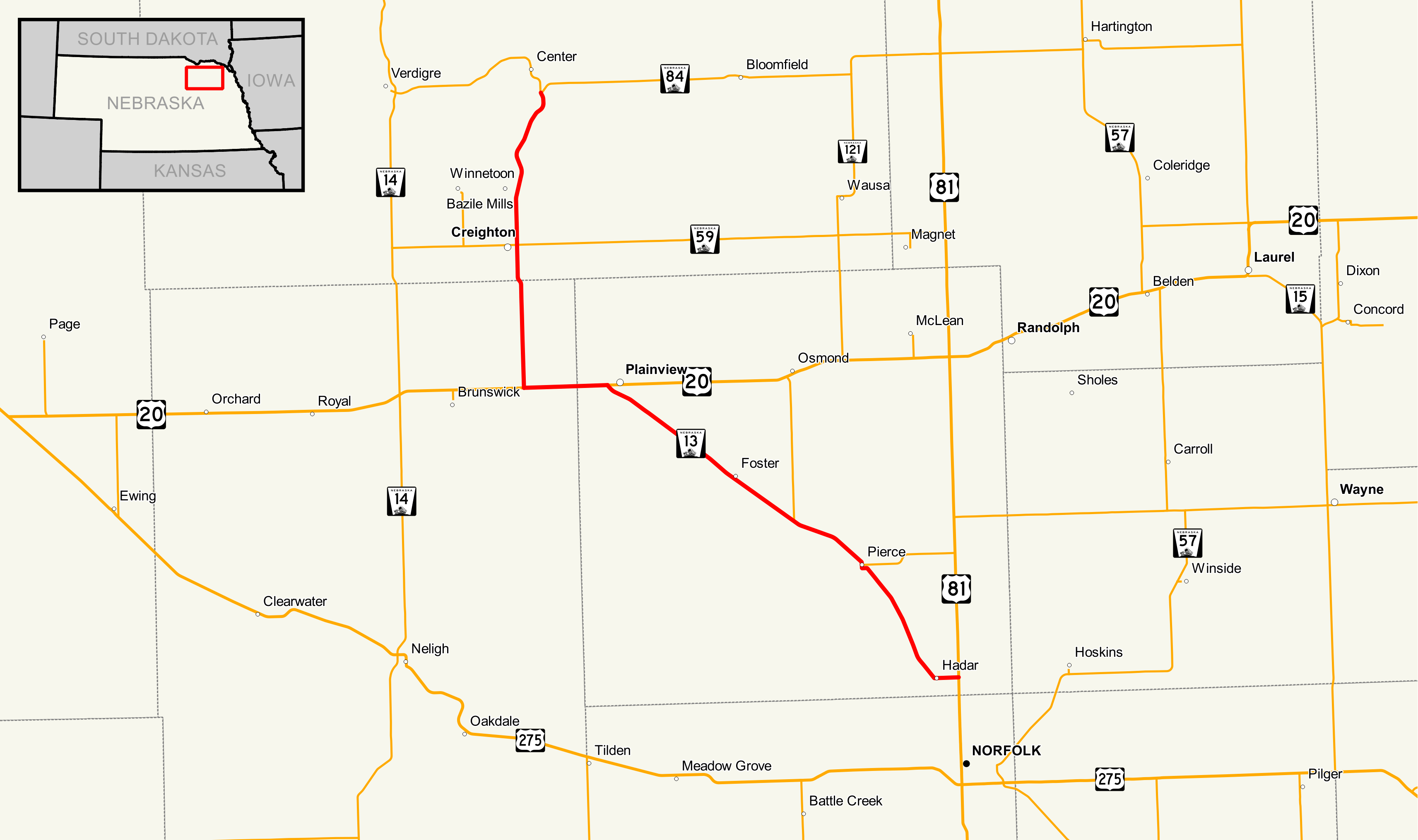 Map of Nebraska Highway 13 Data Sources: Nebraska Highways - - Dec 2016 Nebraska County Boundaries - - Dec 2016 Nebraska City Boundaries - - Dec 2016 This PNG graphic was created with QGIS